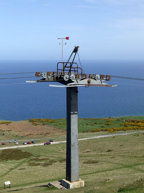 Cable car pylon on Great Orme Summit View looking down on a cable car pylon near to the summit of the Great Orme, with the road that leads back down towards the Marine Drive visible below